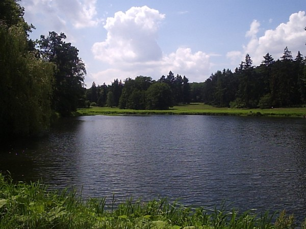 Gołuchów, Poland